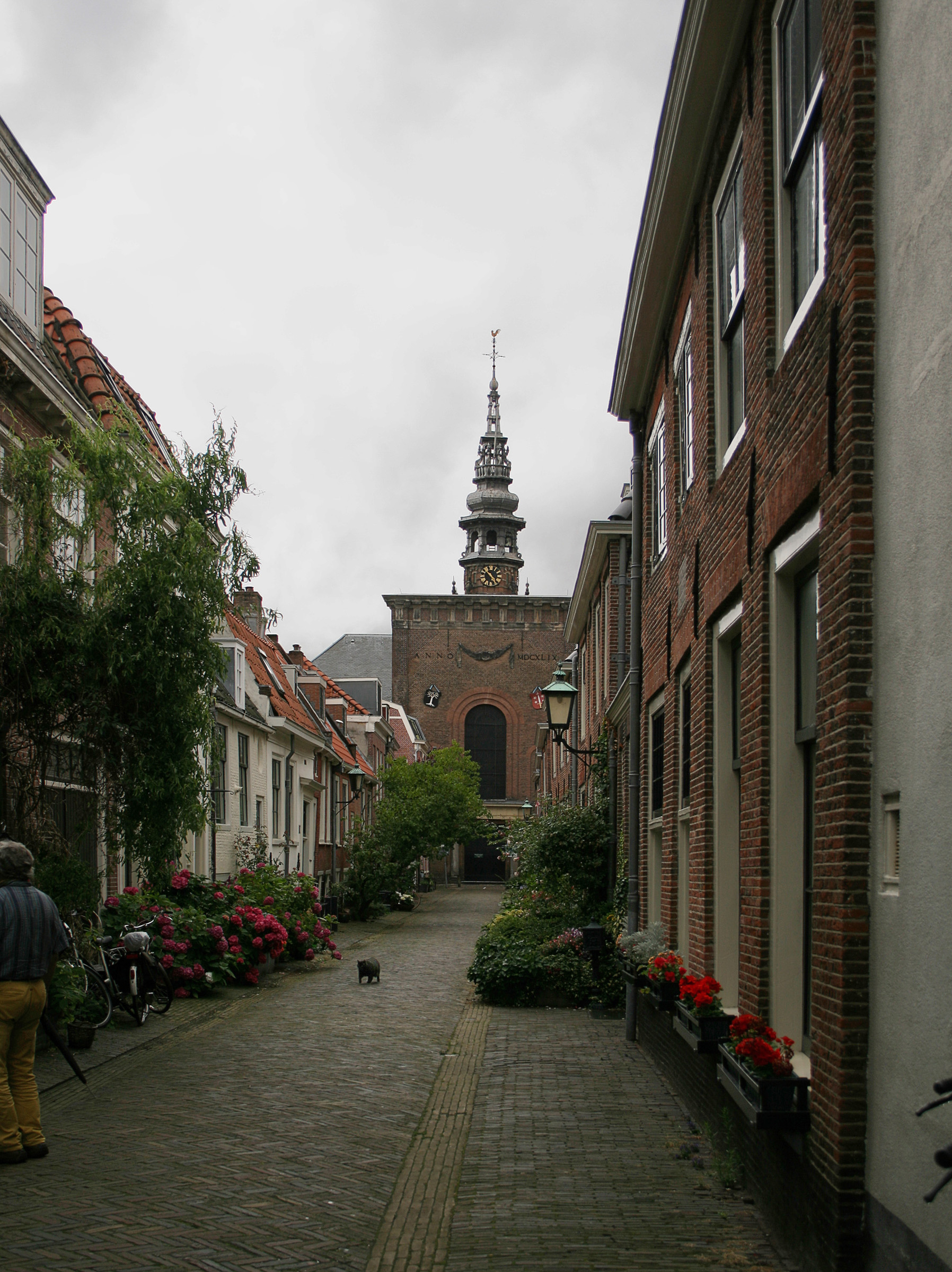 Haarlem, Sint Annakerk (Nieuwekerk), XVII century